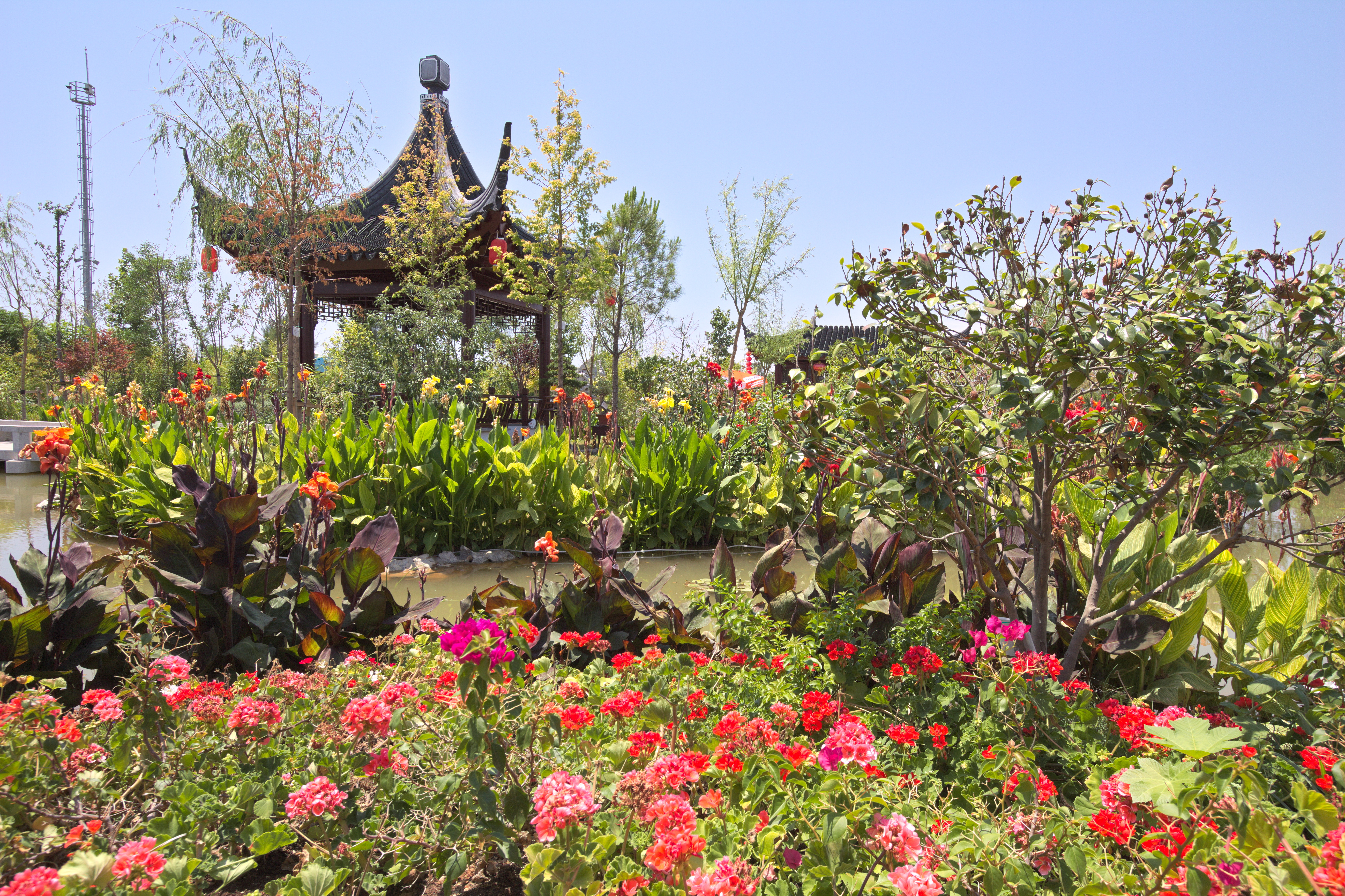 Expo 2016 Antalya - Chinese Garden